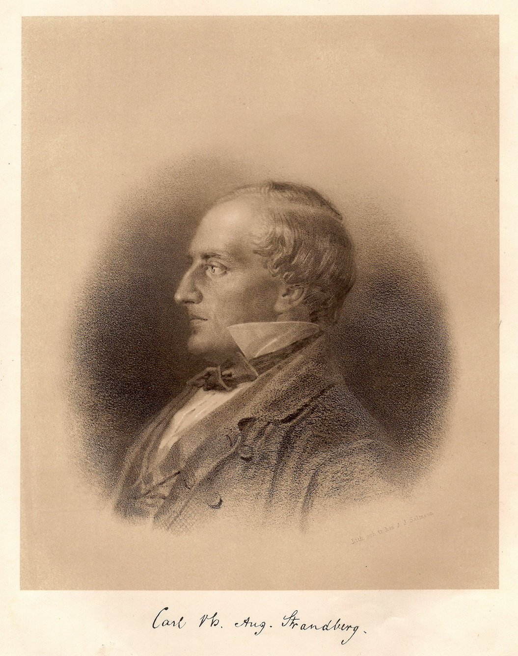 C.V.A. Strandberg (1818-77), Swedish poet, member of the Swedish Academy.